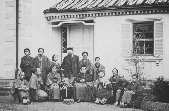 Mcvean Family in Yamato Yashiki, c.1872.